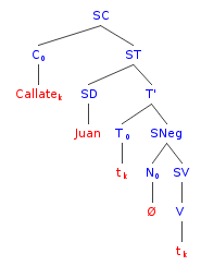 An analysis of the grammatically correct sentence in